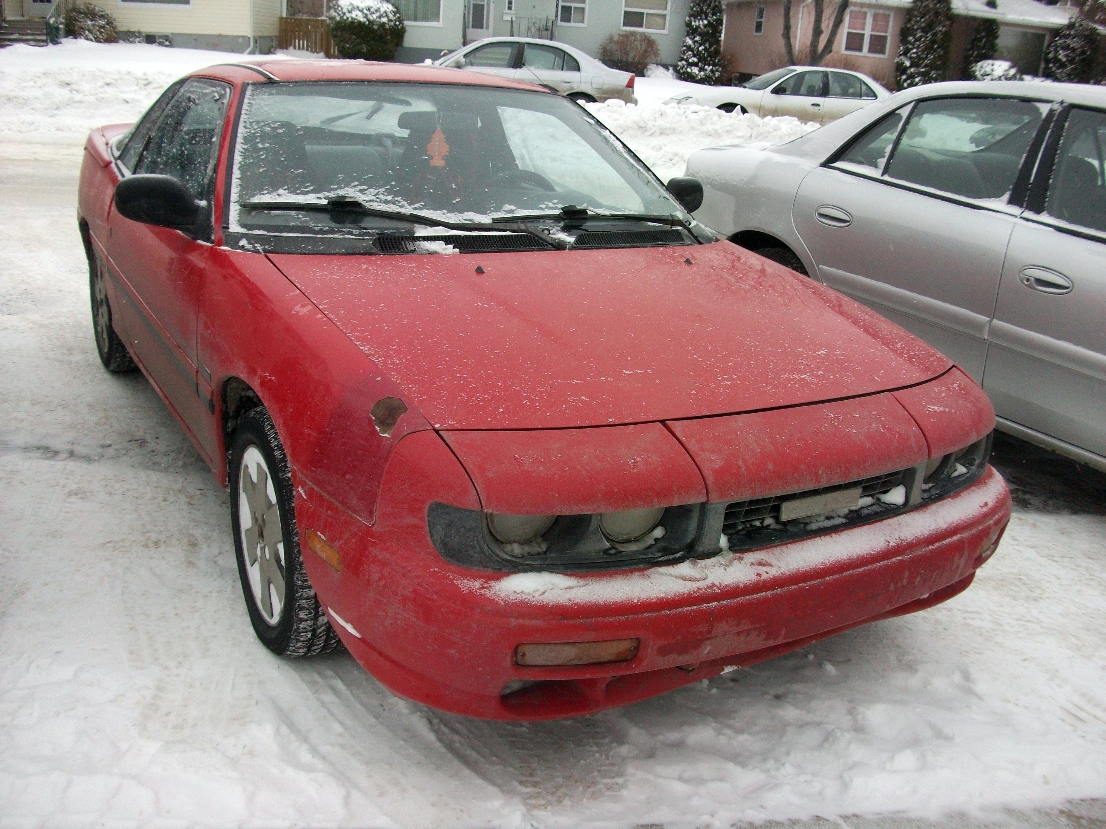 For 1993 the Isuzu Piazza / Impulse was sold in Canada as the Asuna Sunfire.